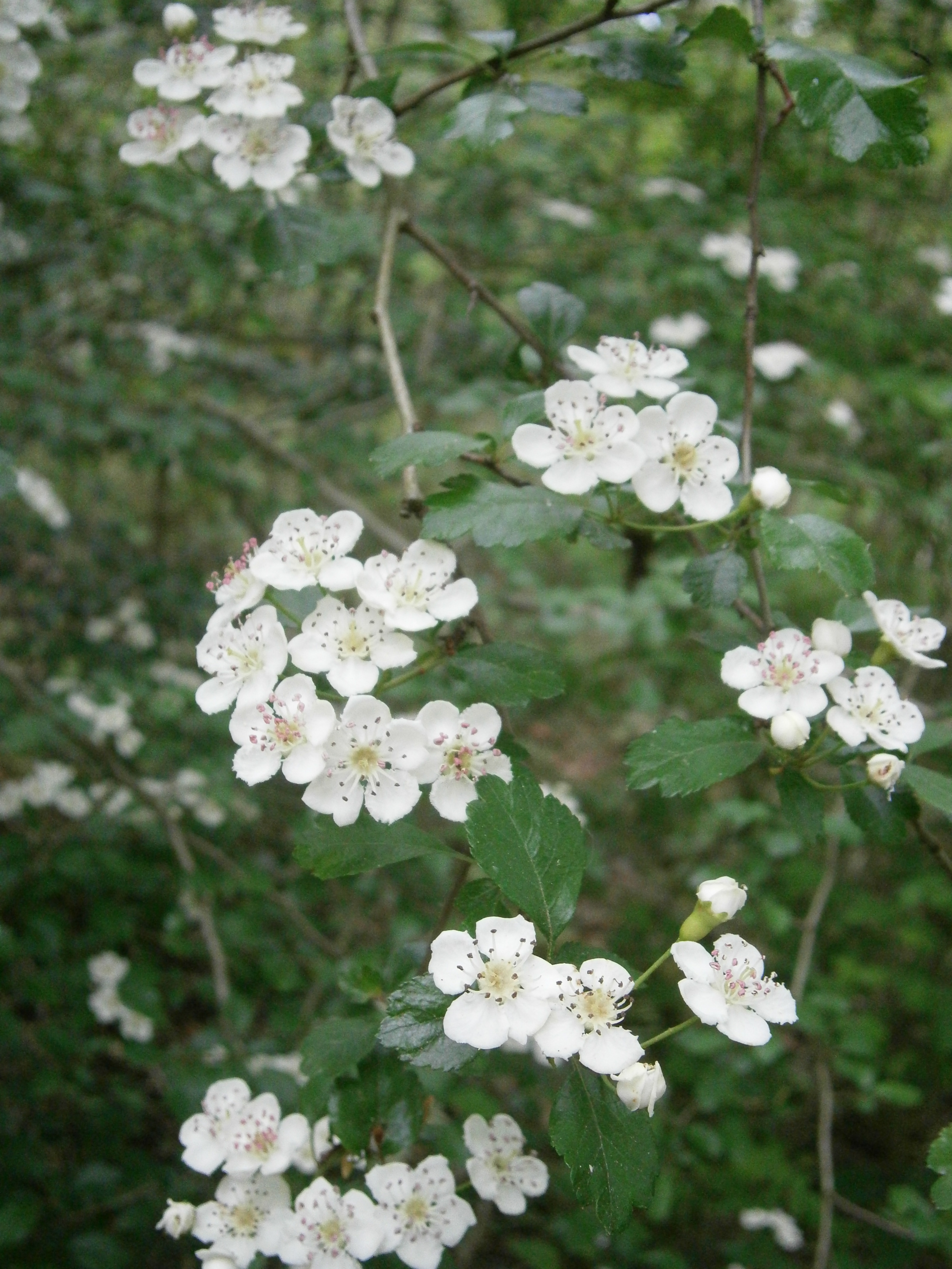 Crataegus laevigata